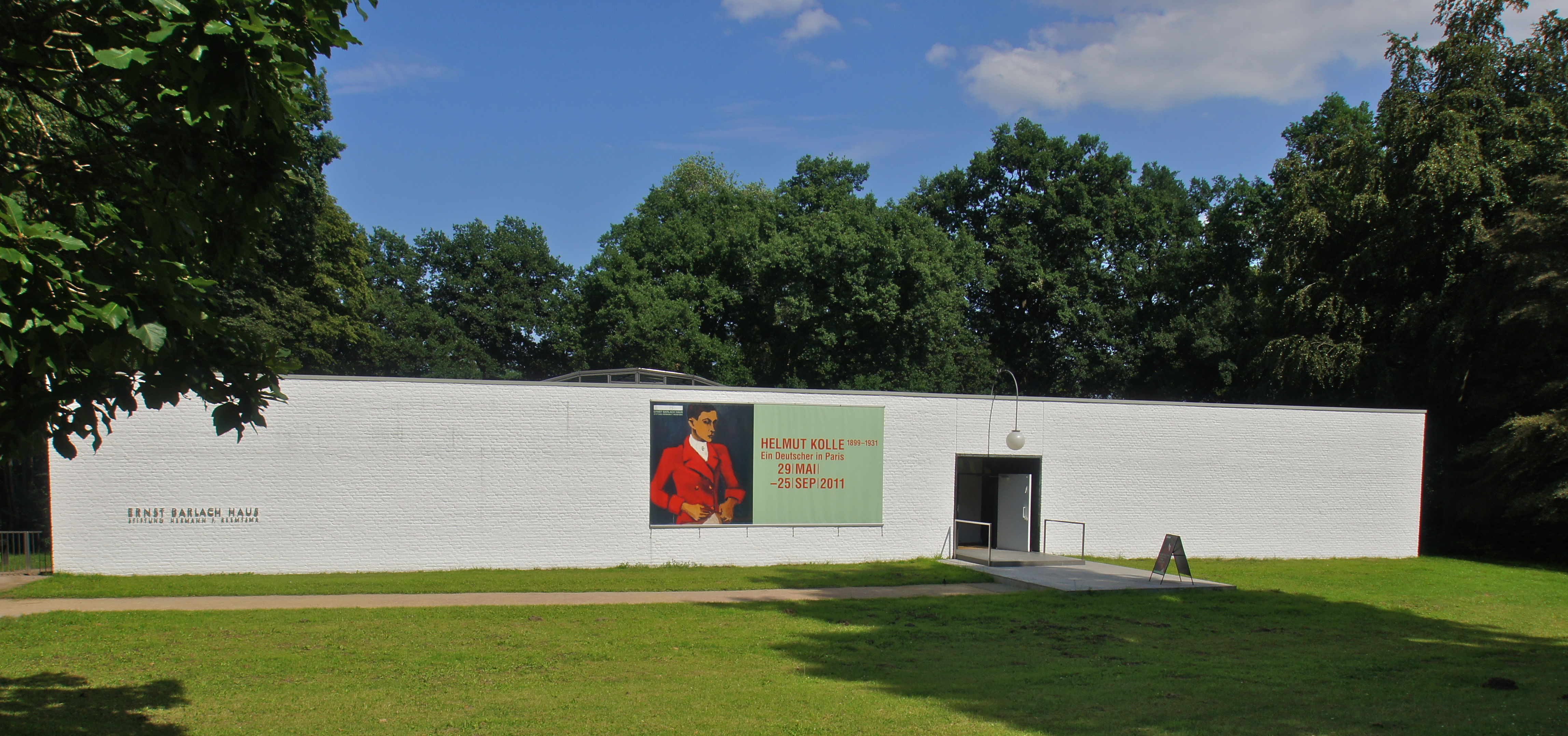 Hamburg (Othmarschen), Germany: Front of the Ernst Barlach House